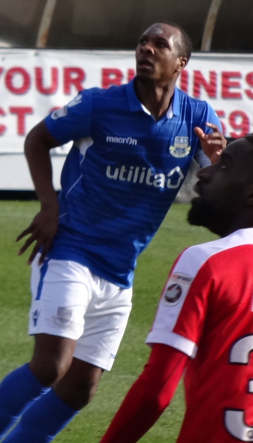 Gavin Hoyte playing for Eastleigh against York City at Bootham Crescent, York on 4 March 2017